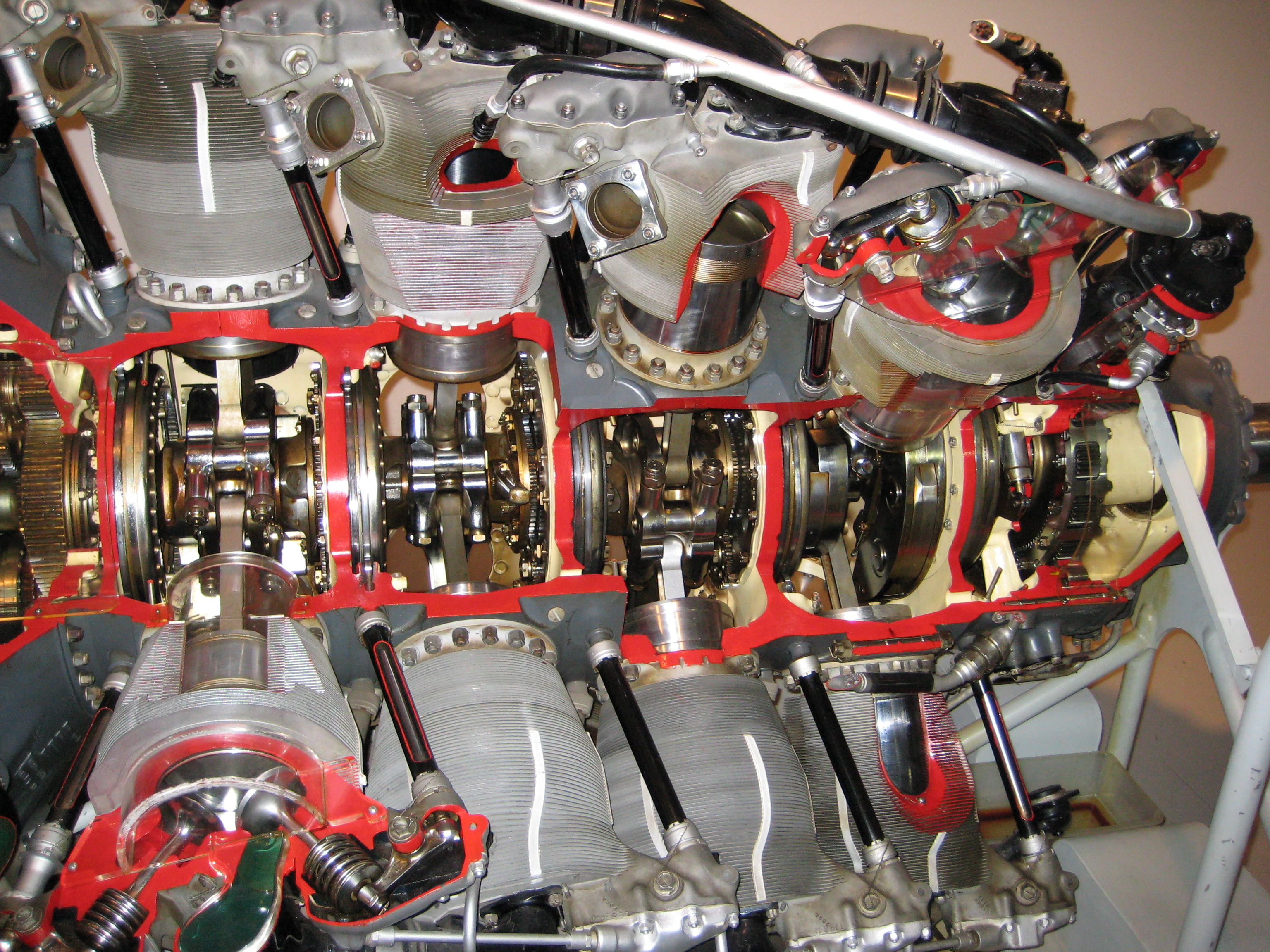 This is a cutaway of the giant radial engine that powered the largest piston planes, like the B-36